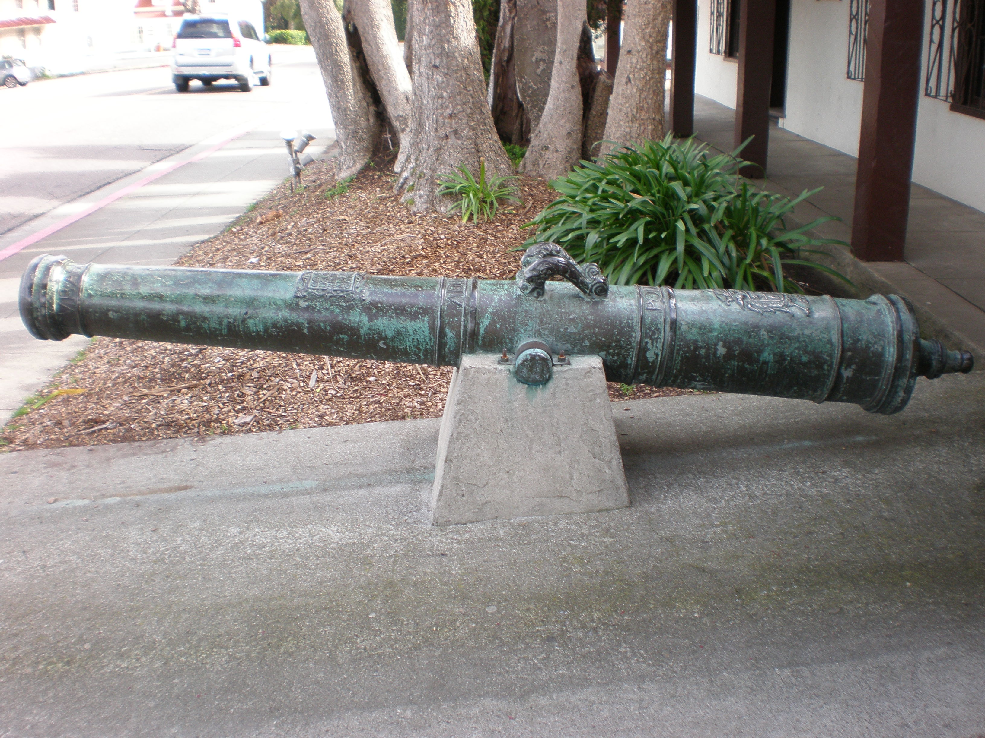 The Spanish cannon "Poder" outside the Officer's Club/Visitor Center on the Main Post area of the Presidio of San Francisco.